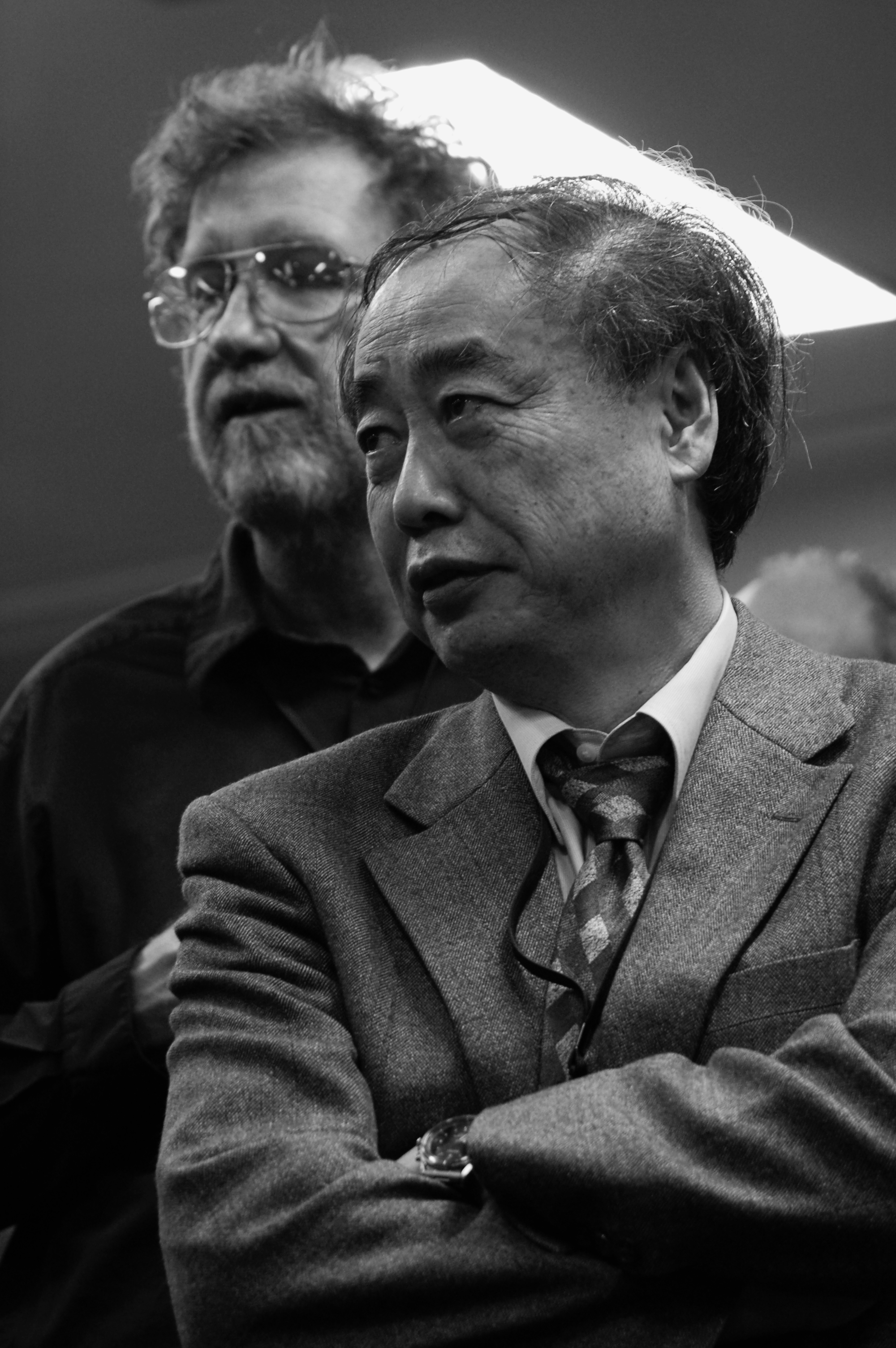 Makoto Kobayashi at the CKM Workshop 2006, Nagoya, Japan